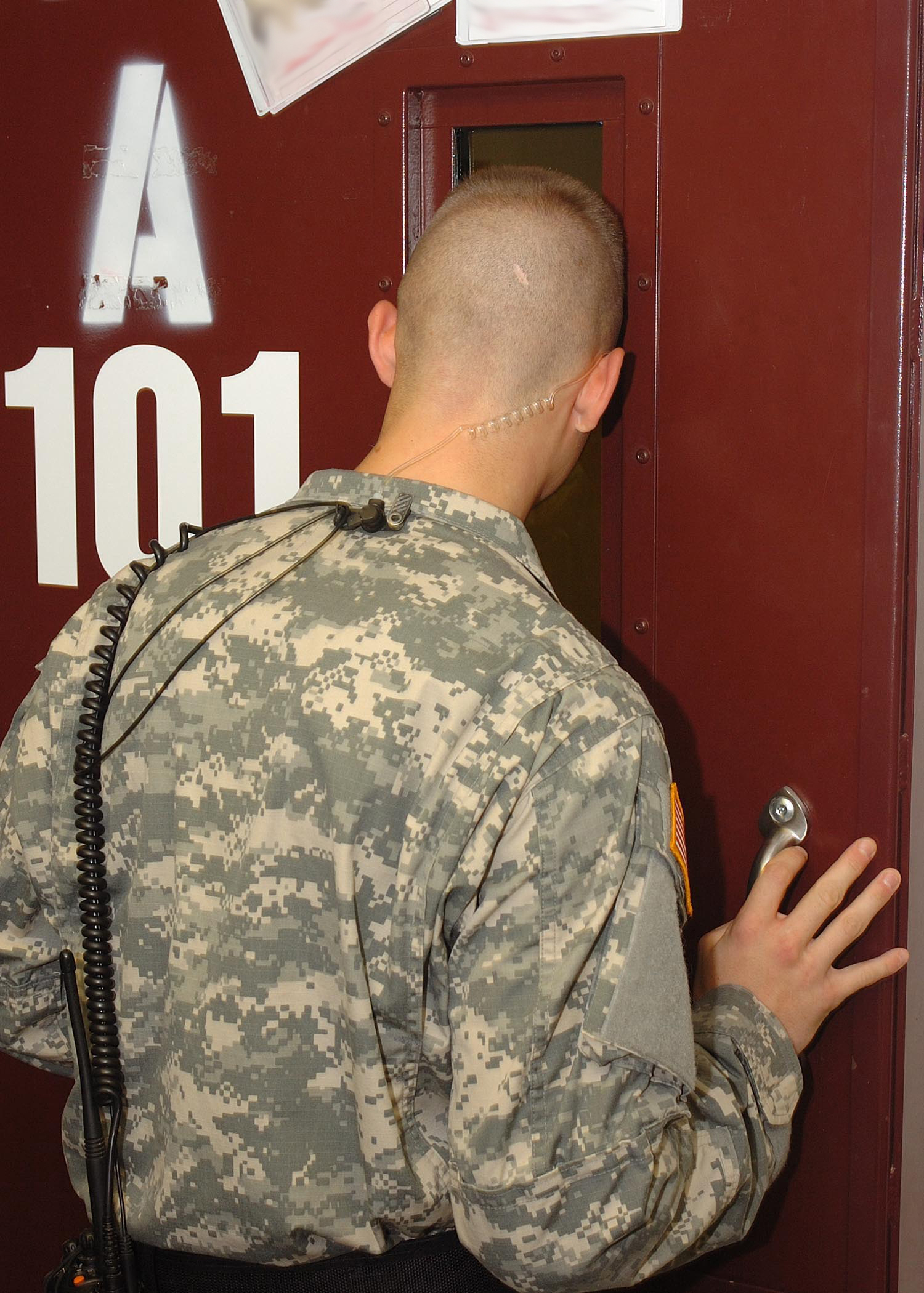 GUANTANAMO BAY, Cuba - Member of the Army Guard Force checks on a detainee in Camp 5 on Aug. 6, 2007. Navy and Army Guard Forces are on a 24-hour rotating watch during their deployment at JTF Guantanamo. (JTF Guantanamo photo by Navy Petty Officer 1st Class Michael Billings)